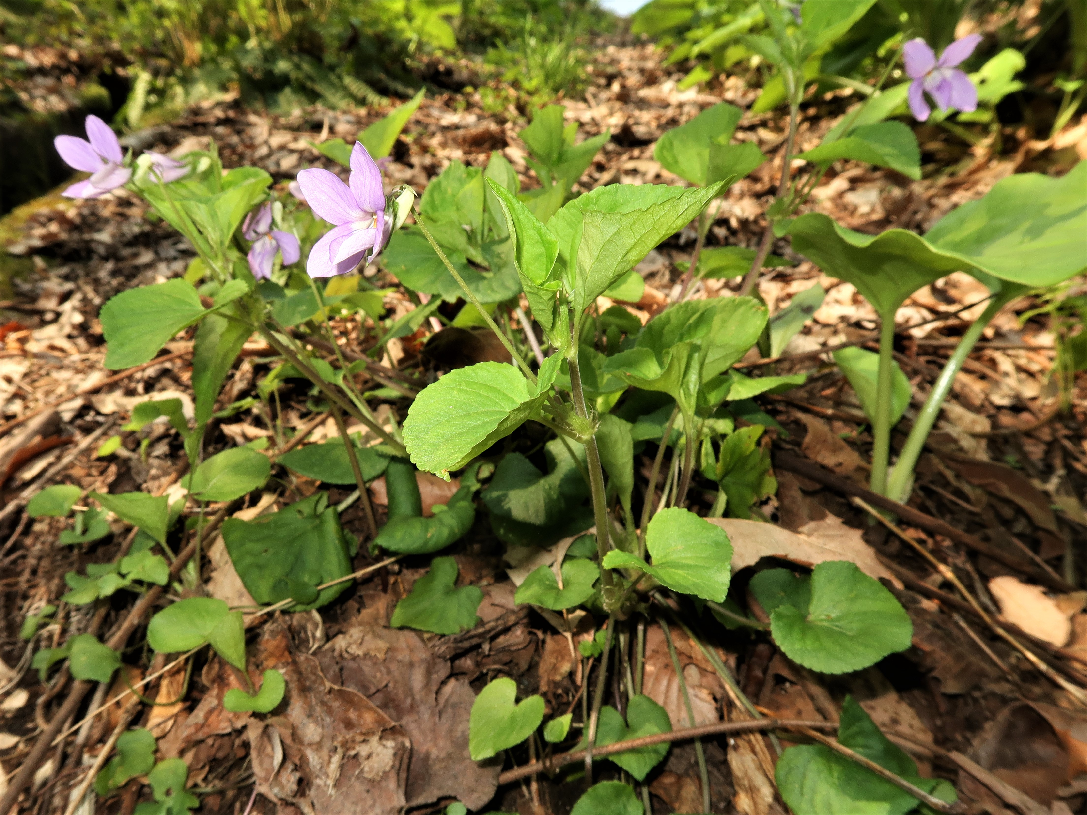 Viola kusanoana, Aizu area, Fukushima pref., Japan